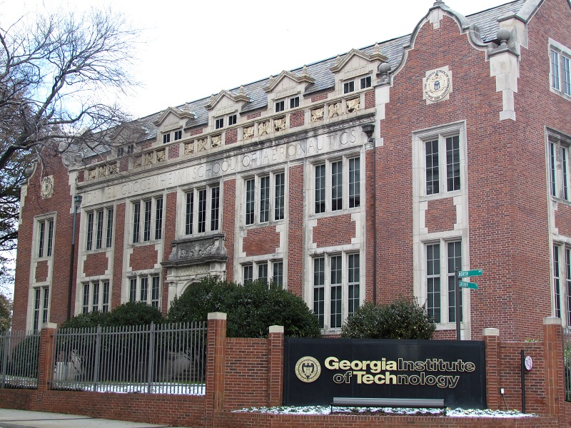 The original Georgia Tech aeronautical engineering school is one of 7 aeronautical engineering schools donated by Daniel Guggenheim. The other 6 were at MIT, Caltech, NYU, Stanford, Michigan, and Washington.